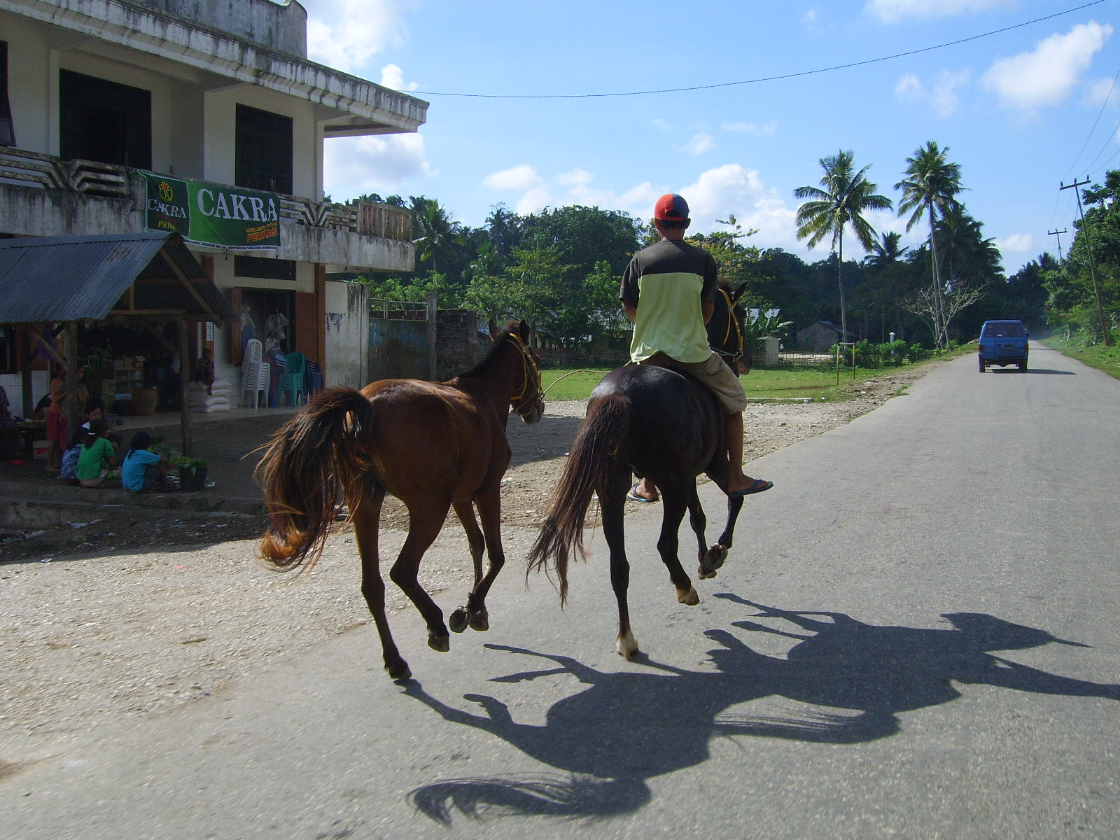 Two horses on East-Sumba